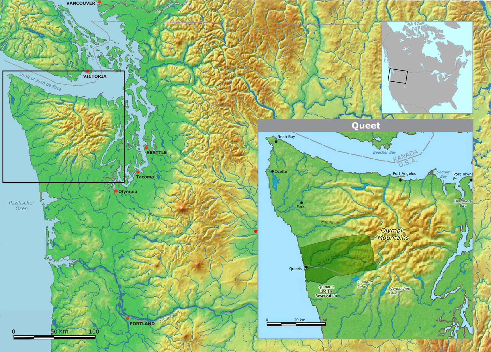 Map of Queet traditional tribal territory and reservation